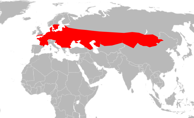 Lacerta agilis range map.